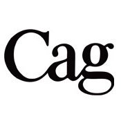 Cag Logo